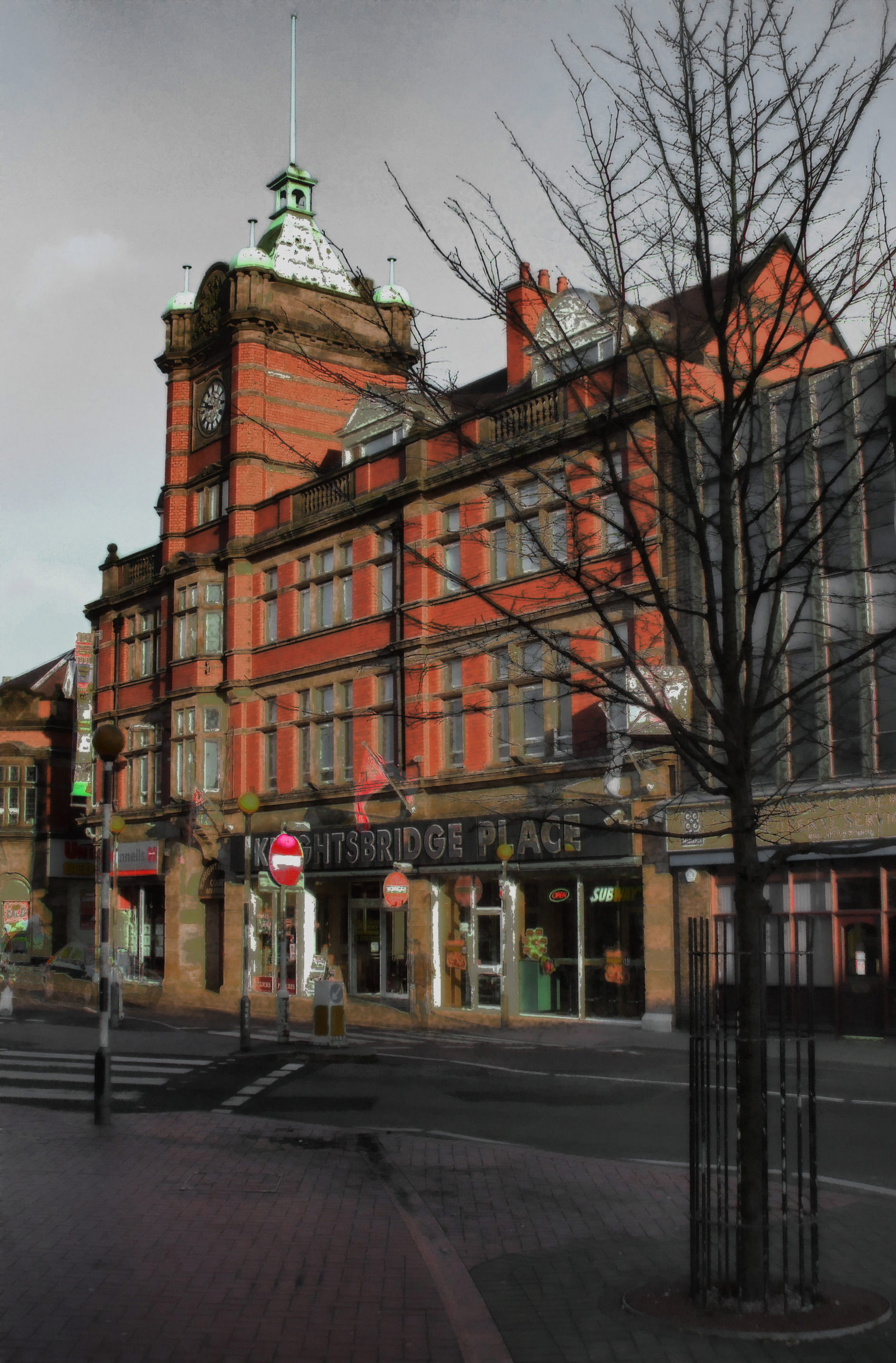 Ripley in Derbyshire in January 2008